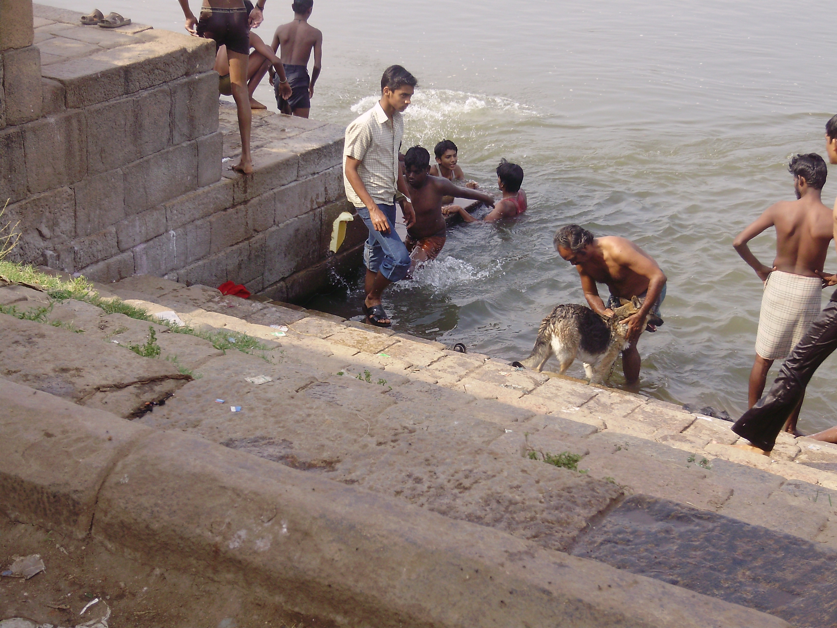 ஒரே படித்துறையில் குளிக்கும் மனிதர்களும் உயர் சாதி நாயும்